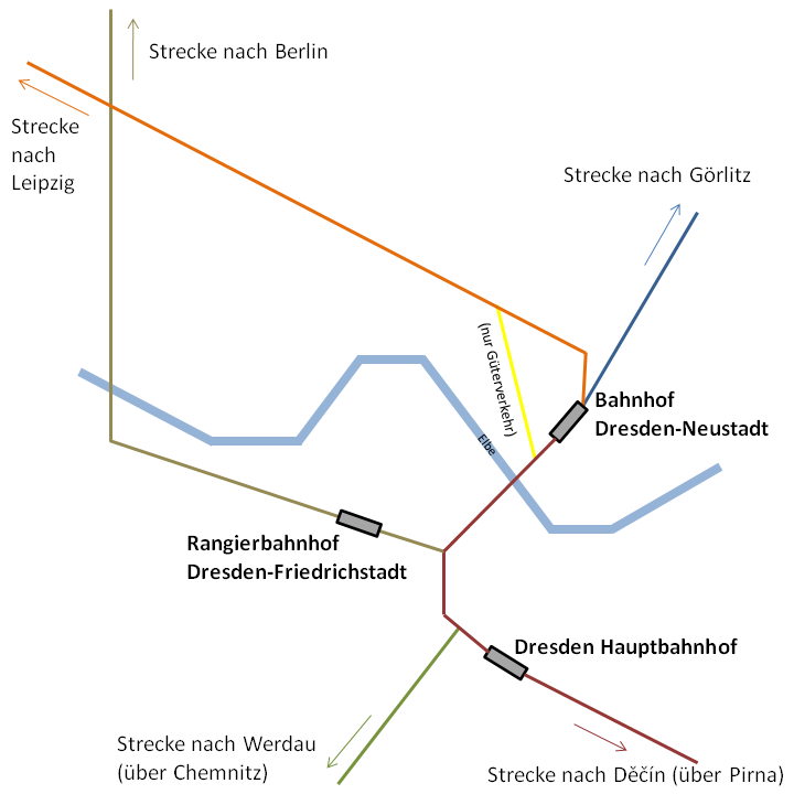 Schematic of Dresden railway with major stations